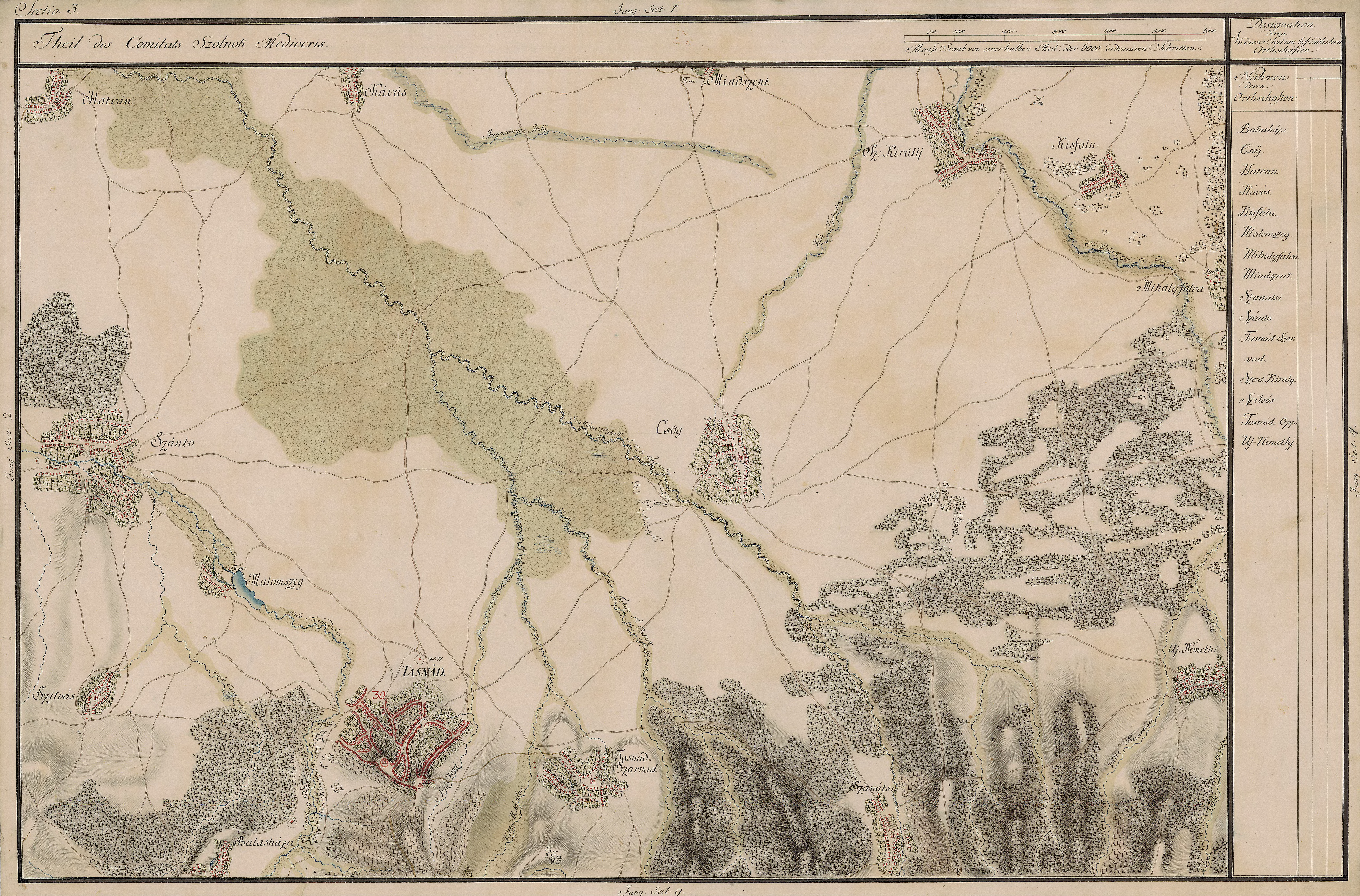 Grand Duchy of Transylvania, 1769-1773. Josephinische Landaufnahme pg.003